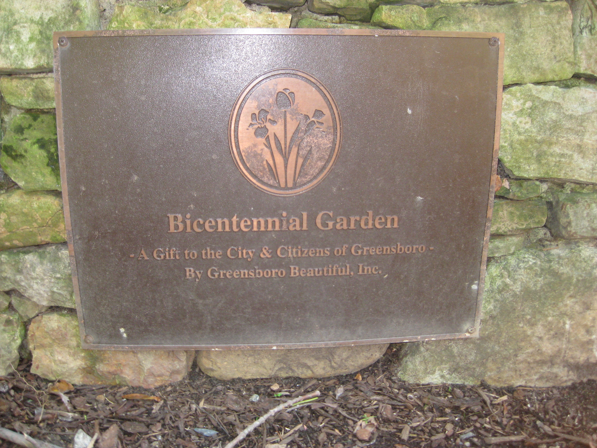 Plaque featured at entrance to the Tanger Family Bicentennial Garden in Greensboro, N.C.